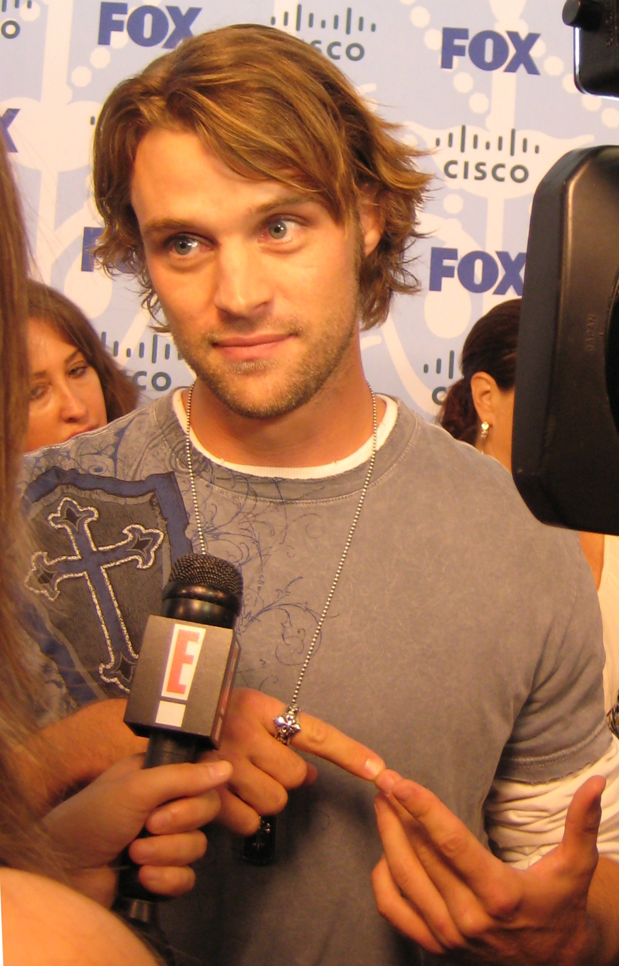 Fox Fall Eco-Casino Party, London Hotel, West Hollywood, California - Sept. 8, 2008.